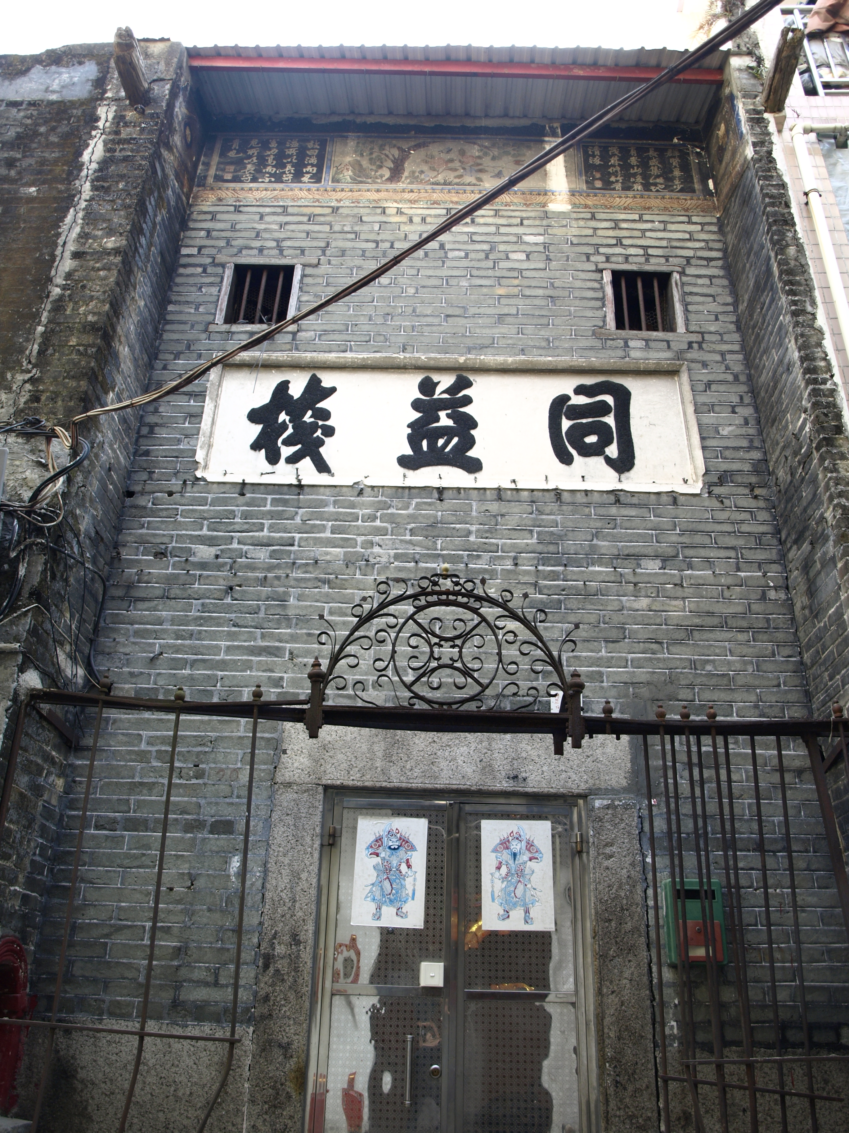 Tung Yick Store on Nos. 20 A & 21 Lee Yick Street in Yuen Long Kau Hui(Old Market Yuen Long), a former inn providing accommodation to traveling merchants from other villages. The exact year of its construction is not known, but it is believed that it had existed before 1899. It is Grade I historic buildings in Hong Kong, and probably the oldest hotel in Hong Kong that still exists